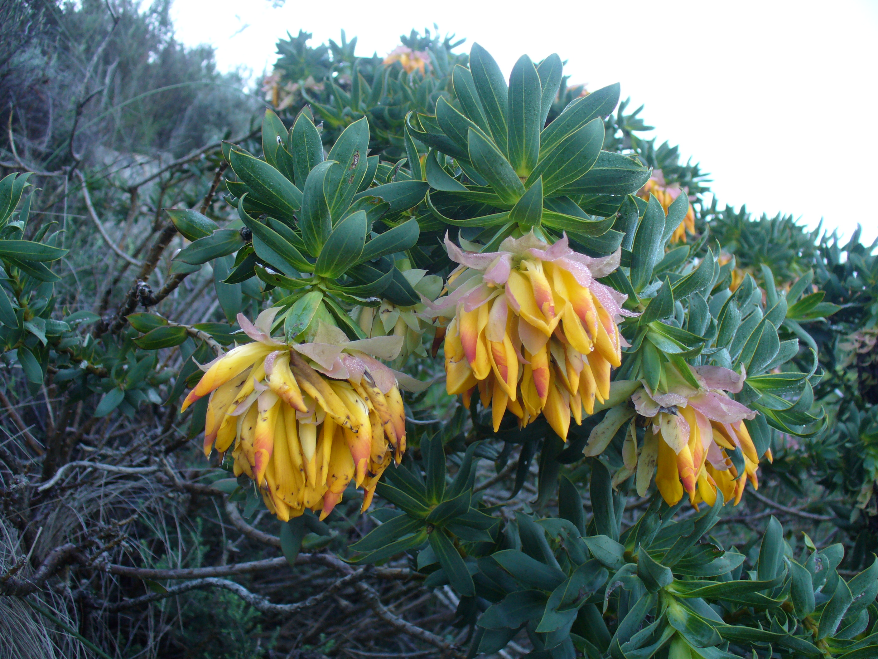 Mountain dahlia flowers (Liparia splendens)